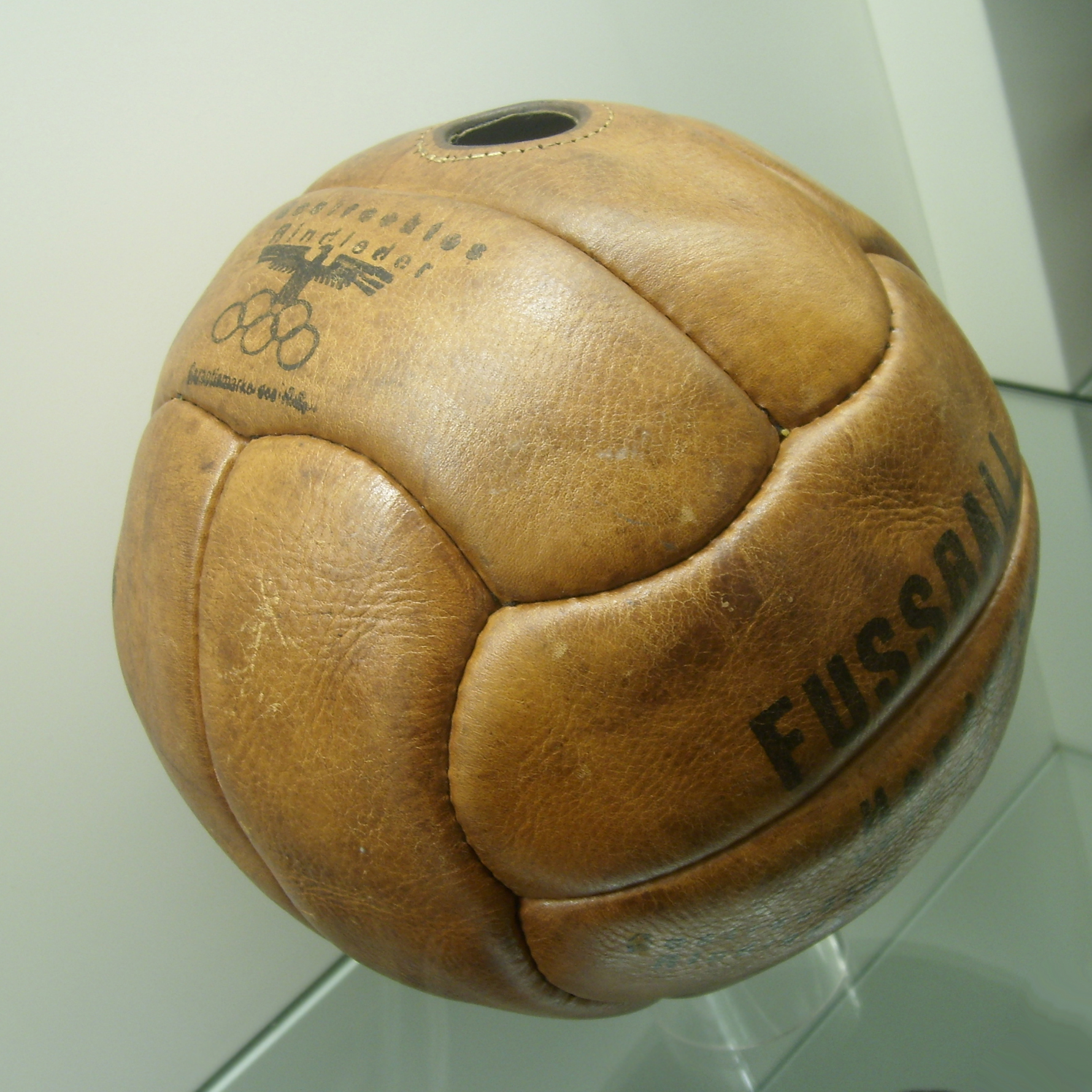 Football made in Germany in 1935 for the Summer Olympics 1936.